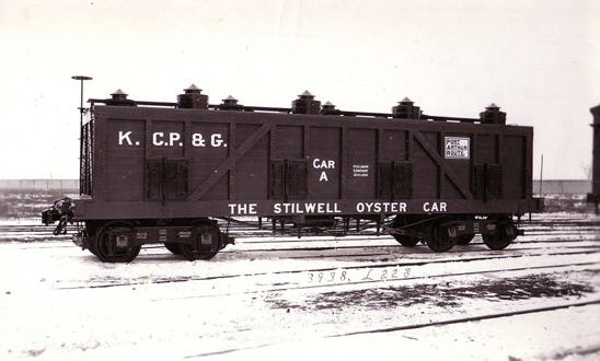 Designed by Arthur E. Stilwell and built by the Pullman Company in 1897, the "Stillwell Oyster Car" was fitted with Cloud pressed-steel trucks. Pullman Neg. 3938.